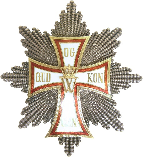 Royal Danish Order of the Dannebrog, Grand Cross Star